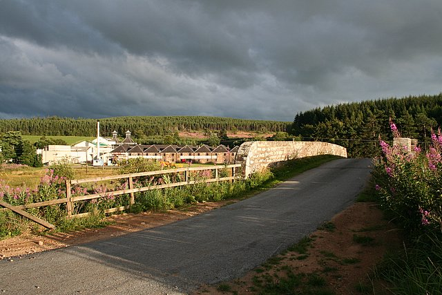 Railway bridge to the north of Glentauchers Distillery.